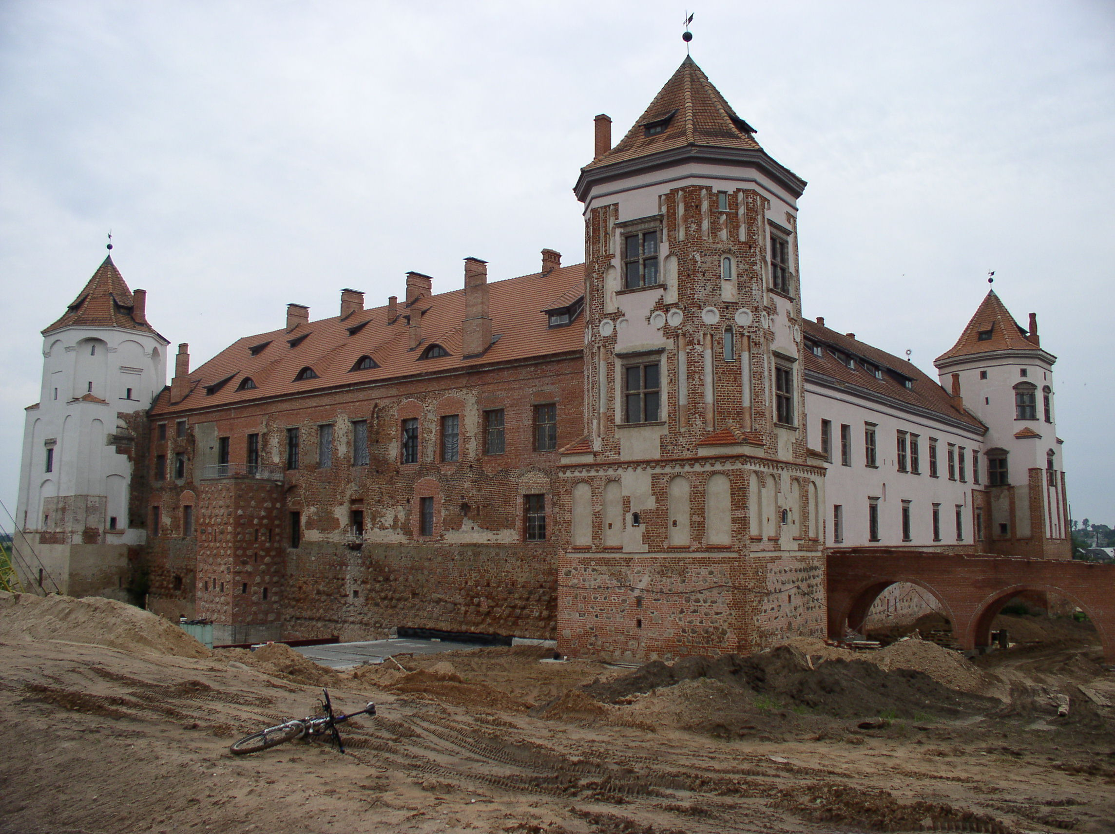 Castle, Mir, Belarus.